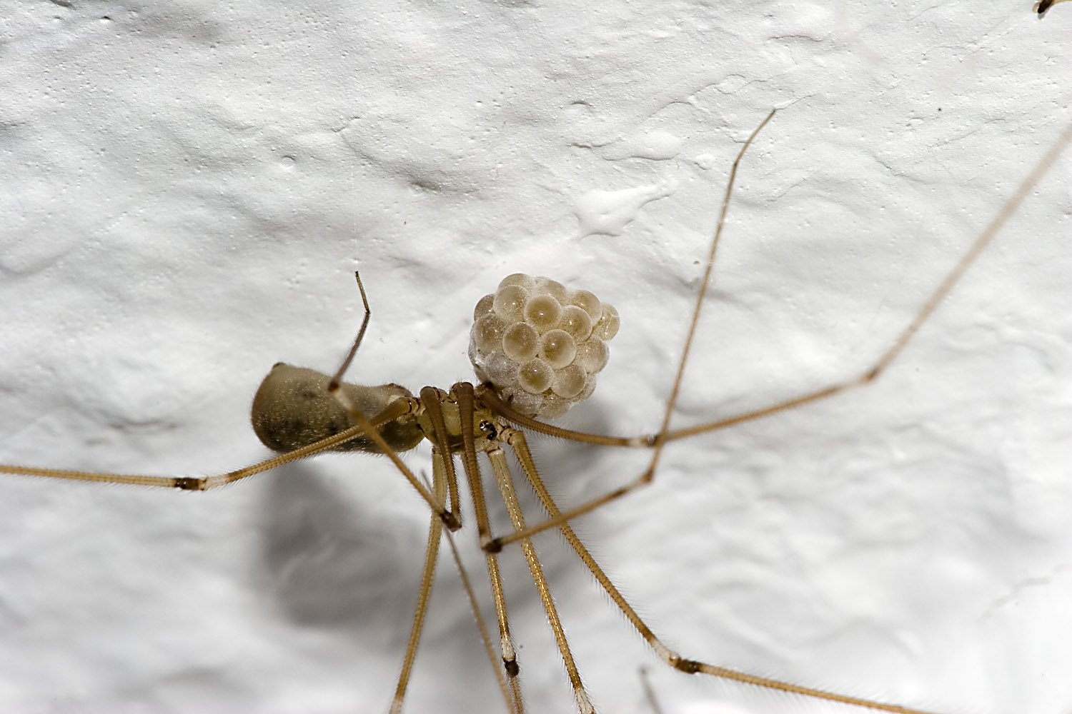 Pholcus phalangioides with egg cocoon; Many thanks to user:Brummfuss and user:DocTaxon for determination!